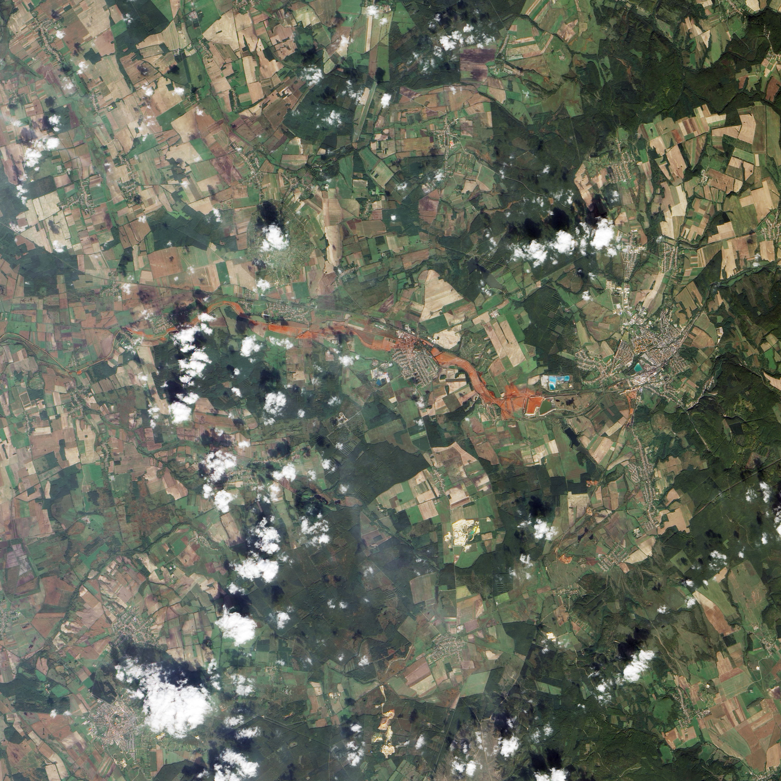 Natural-colour image of the area surrounding the toxic sludge spill in Hungary. The alumina plant appears along the right edge of the image and incorporates both bright blue and brick red reservoirs. The sludge forms a red-orange streak running west from the plant. This view shows the spill thinning but remaining discernible for several kilometres to the west.